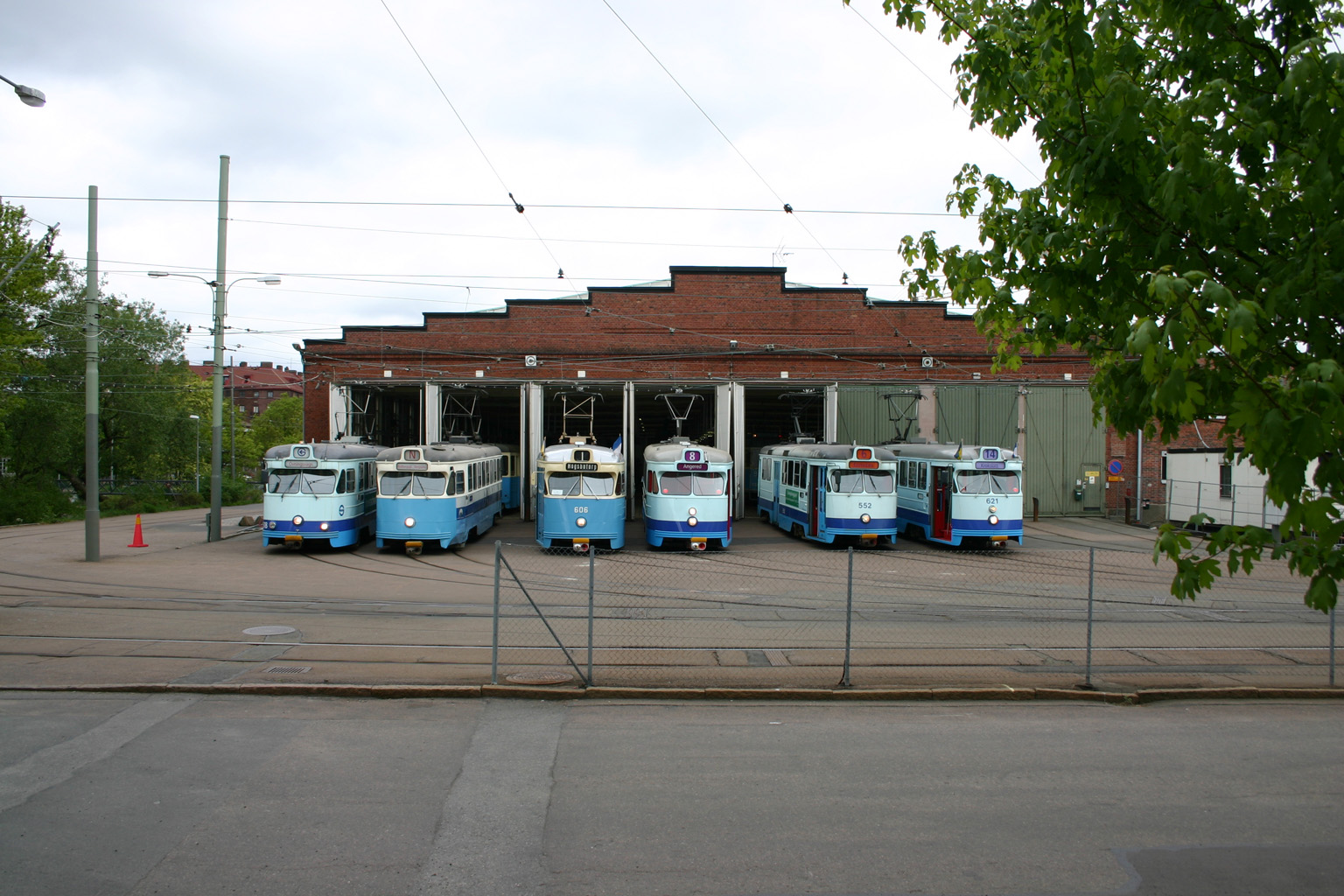 The last tram type M25 in Gothenburg